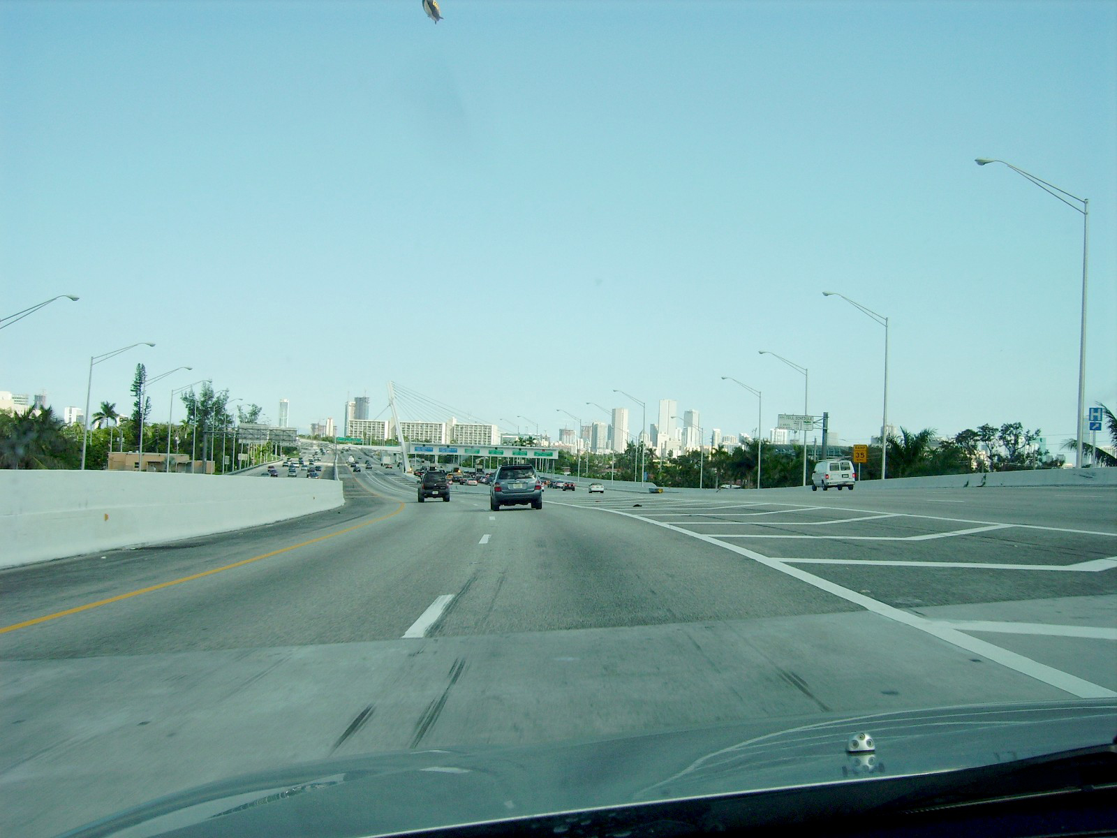 Digital photo taken by Marc Averette. Dolphin Expressway (SR 836) heading east towards downtown Miami. Marc Averette 23:57, 7 October 2006 (UTC)